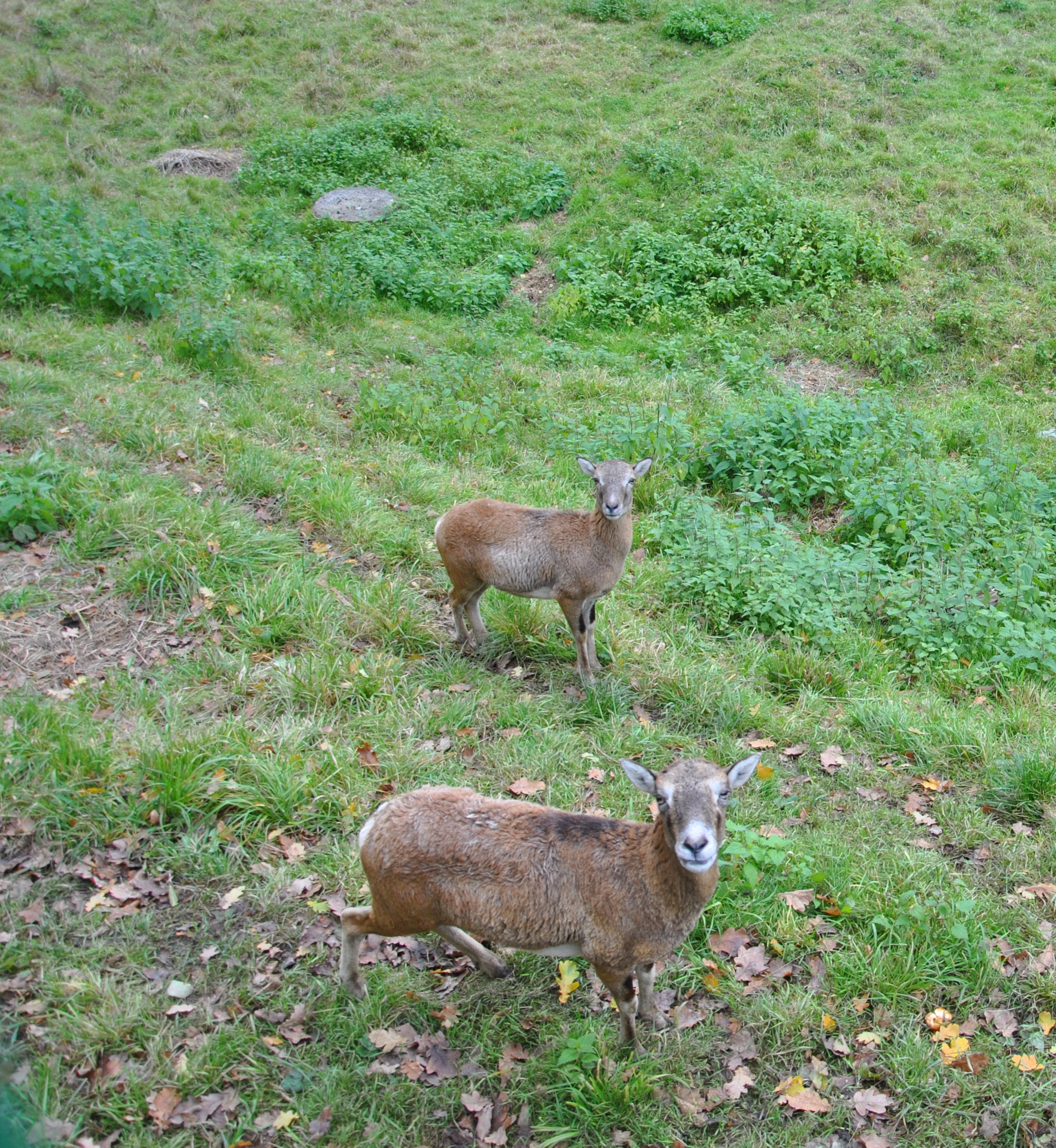 Fauna